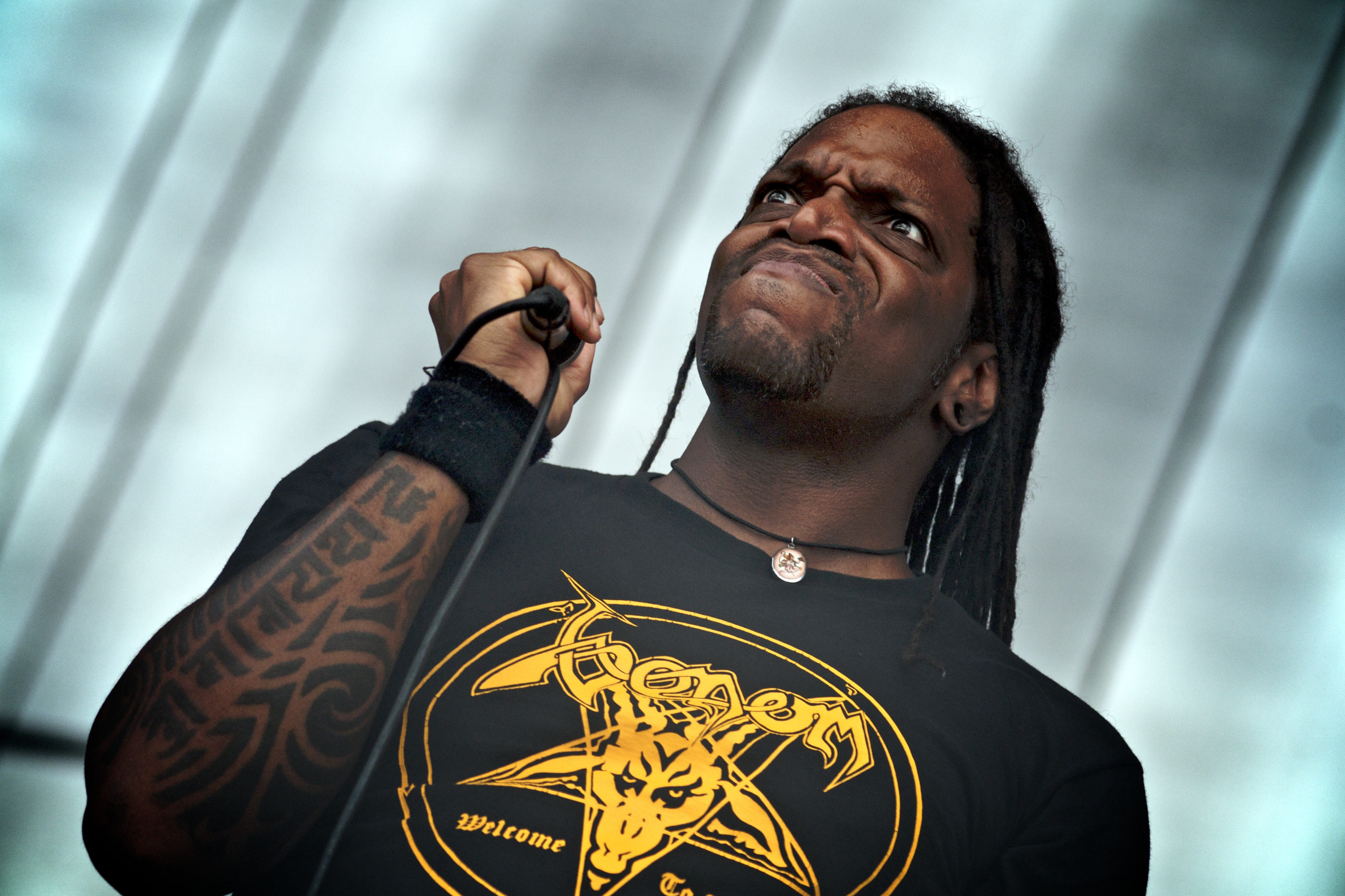 Sepultura in Maquinária Festival, occurred in November 7 2009 at São Paulo, Brazil.